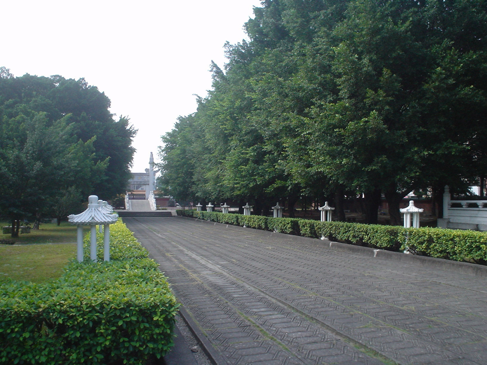 The walkway and entrance area to the Confucius Temple in Taichung, Taiwan.